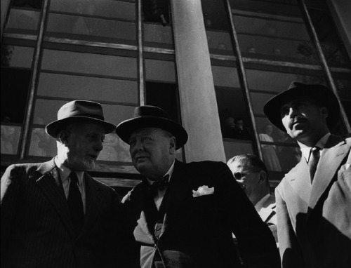 Churchill and Italian Prime Minister Carlo Sforza in Strasbourg 1950